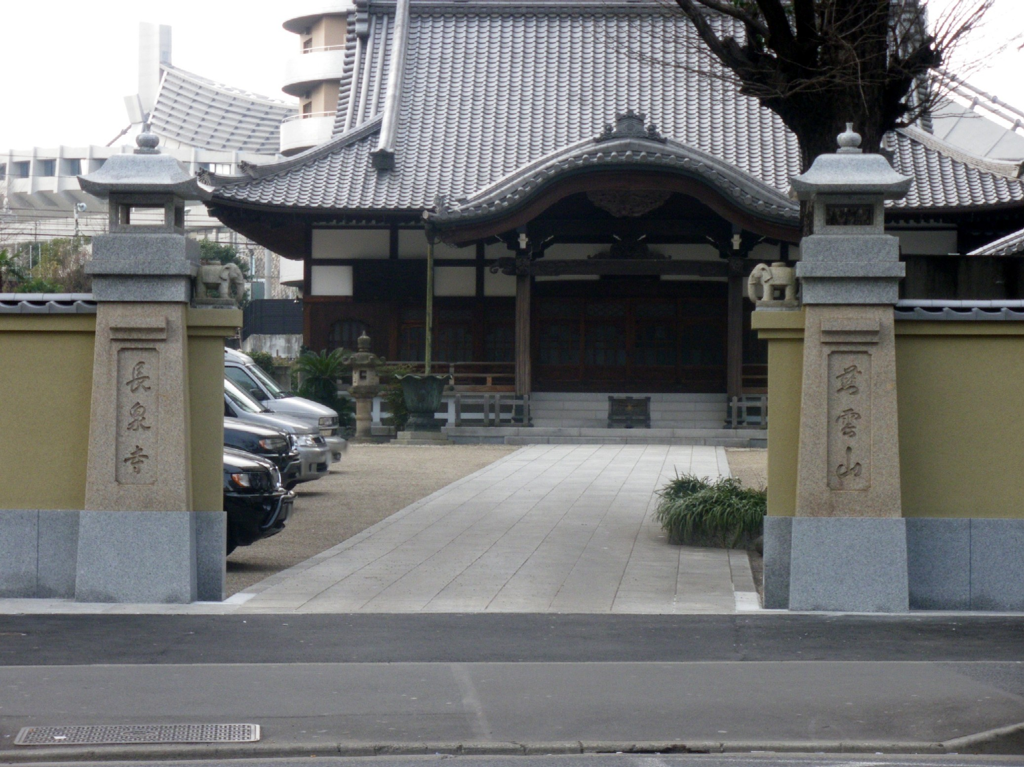 Chosenji Temple(Jingumae,Shibuya,Tokyo)